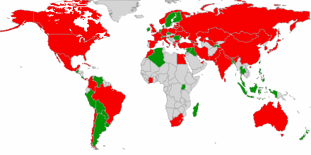 World map showing the affiliated countries (red) and current aspirant affiliated countries (green) of the Kudo International Federation (KIF) as of 2011-10-31